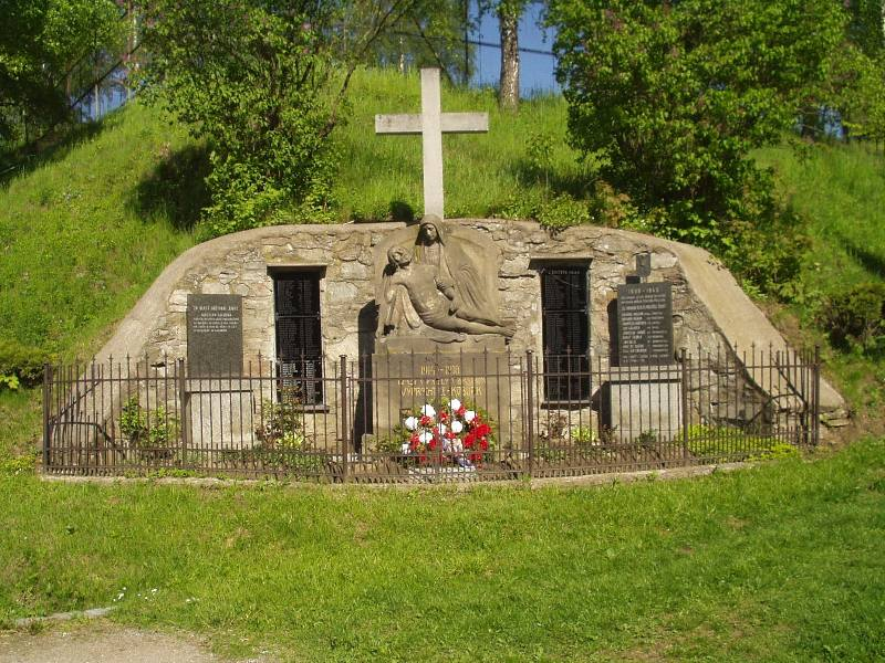 World War I memorial in Výprachtice, Ústí nad Orlicí District, Czech Republic. It contains a statue of Pieta by Čeněk Vosmík.